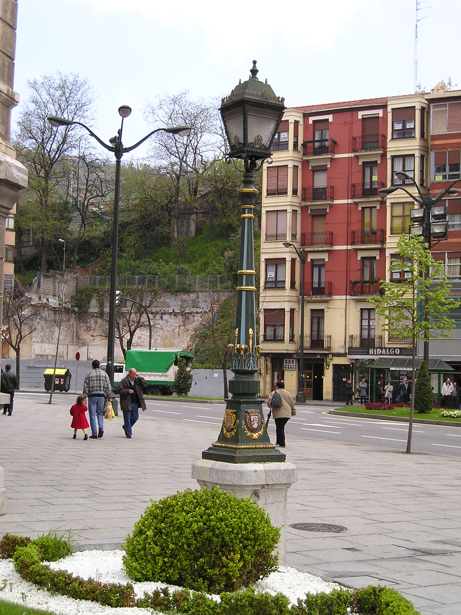 Gas lamp in Bilbao